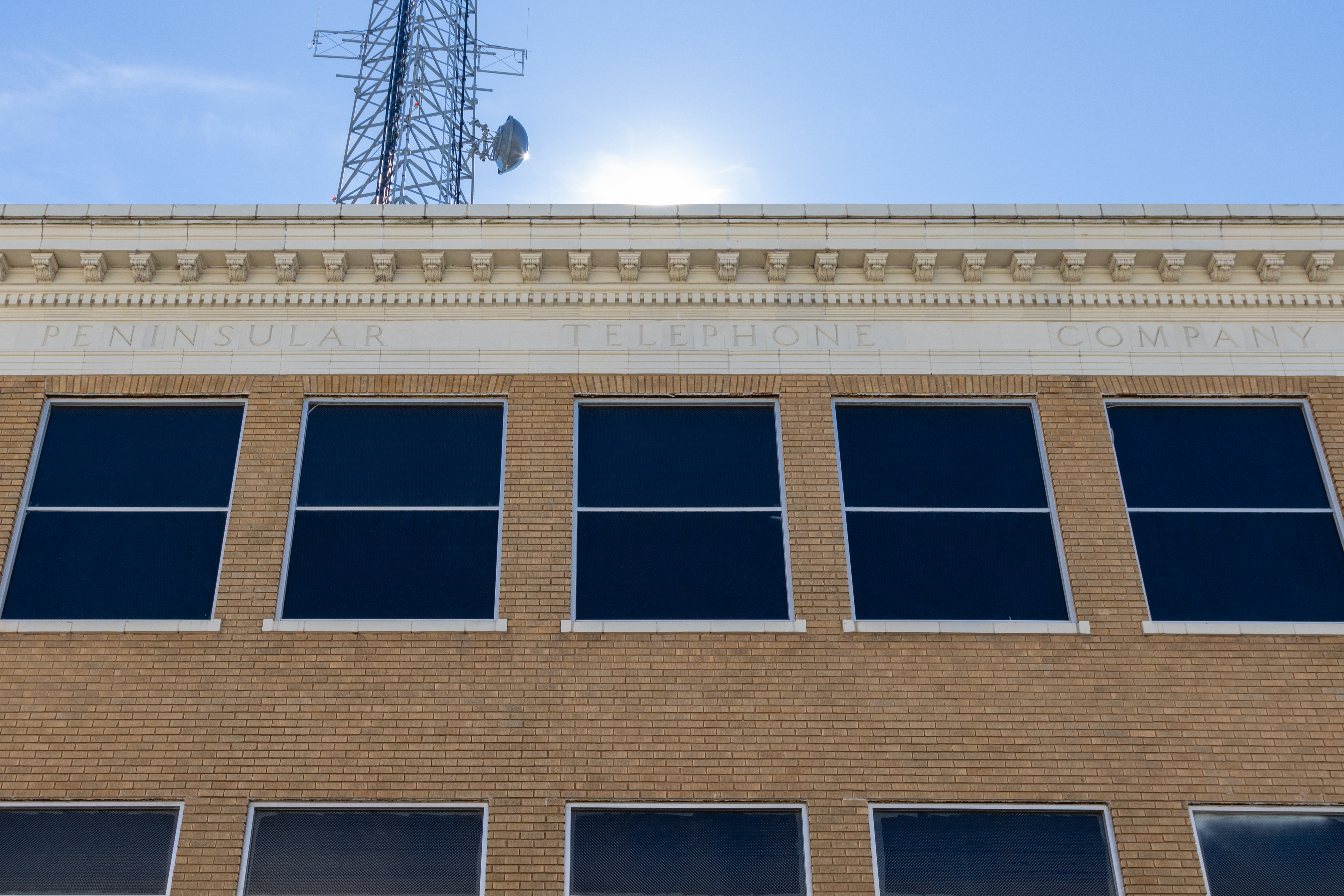 Peninsular Telephone Company Building, Bradenton, Florida. Constructed: 1925. Architect: J.H. Johnson.